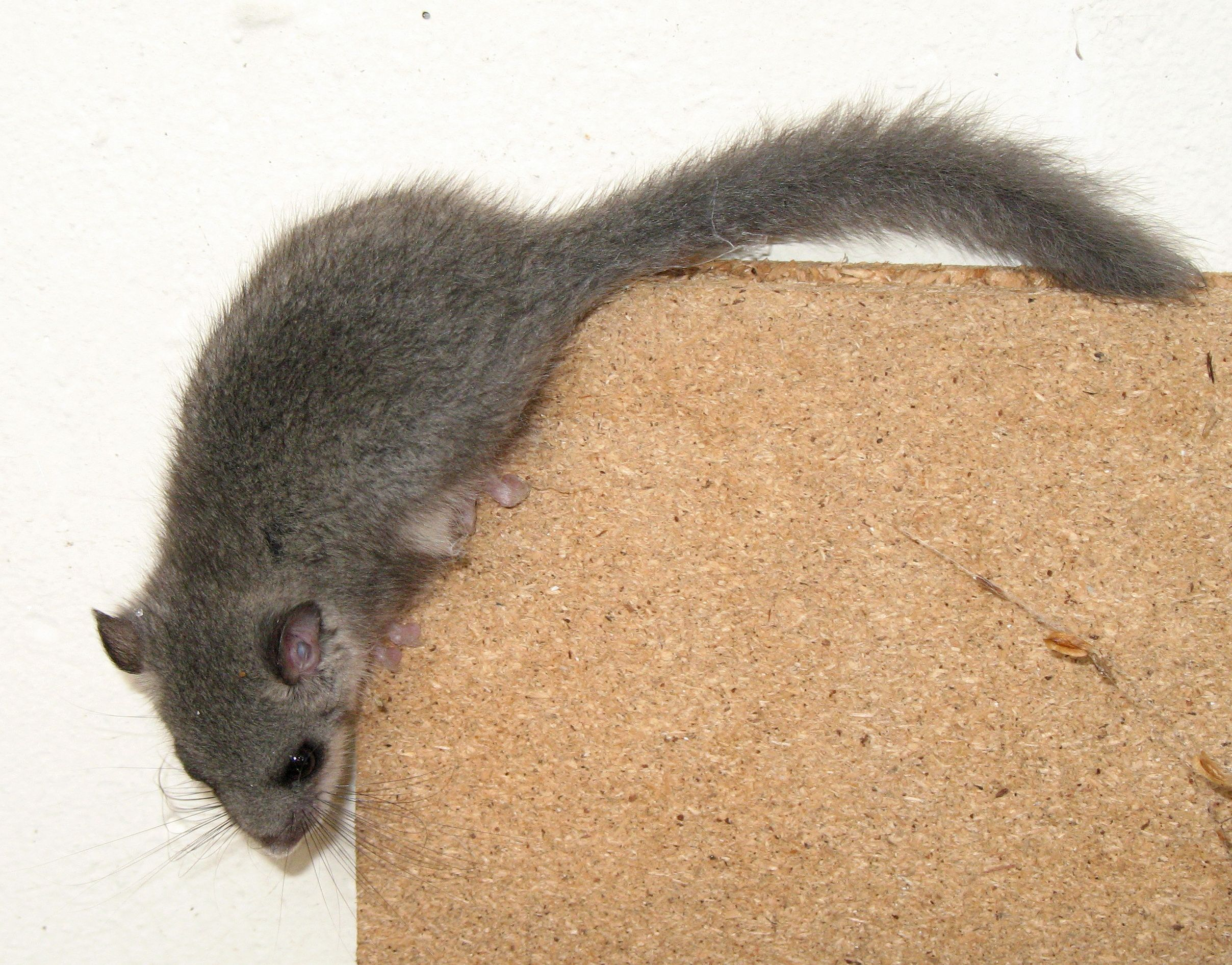 Edible Dormouse, Glis glis